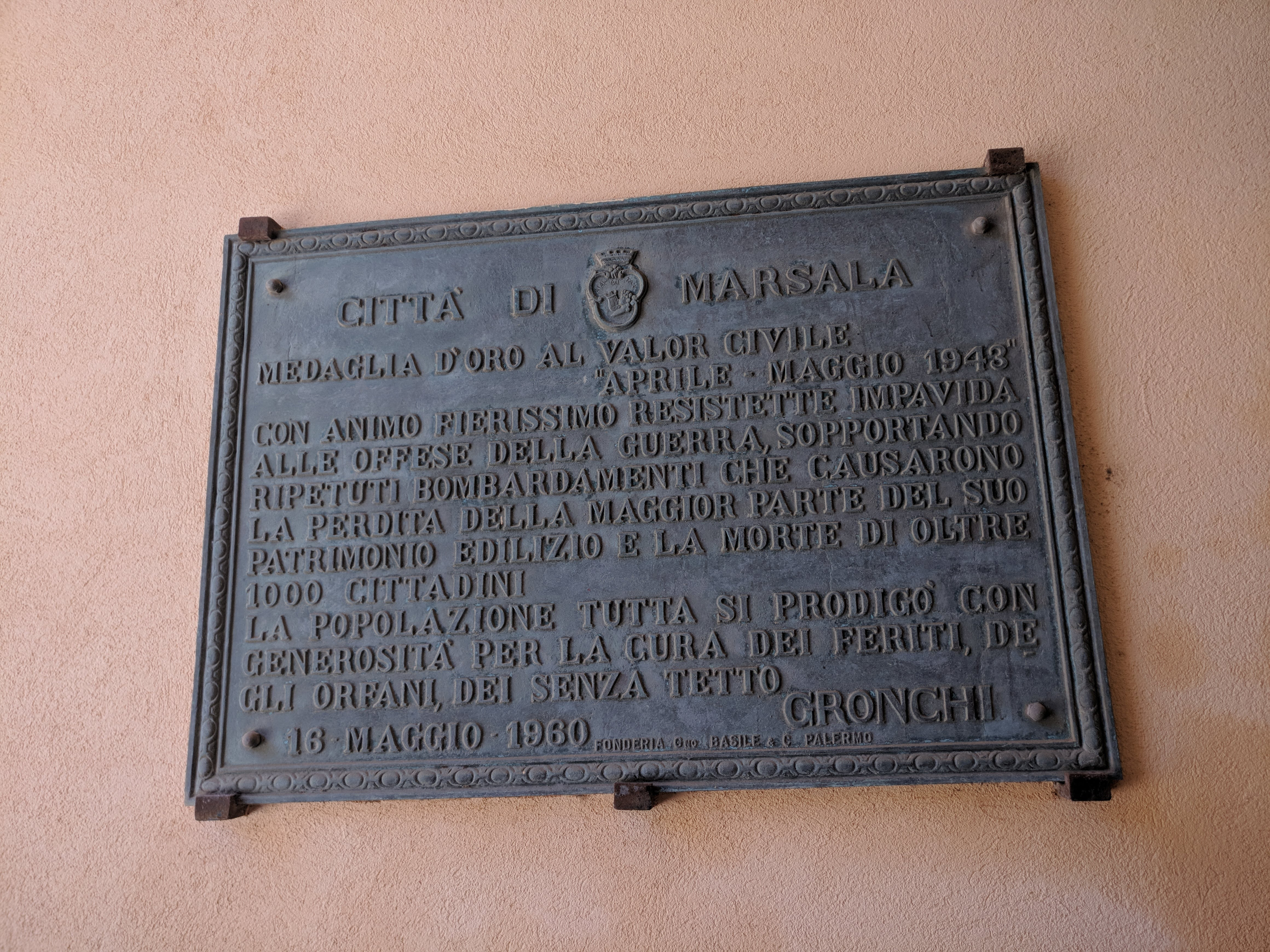 Memorial Plaque in Marsala's City centre that commemorates the allied bombings of Marsala in Spring of 1943. Located near Porta Garibaldi.